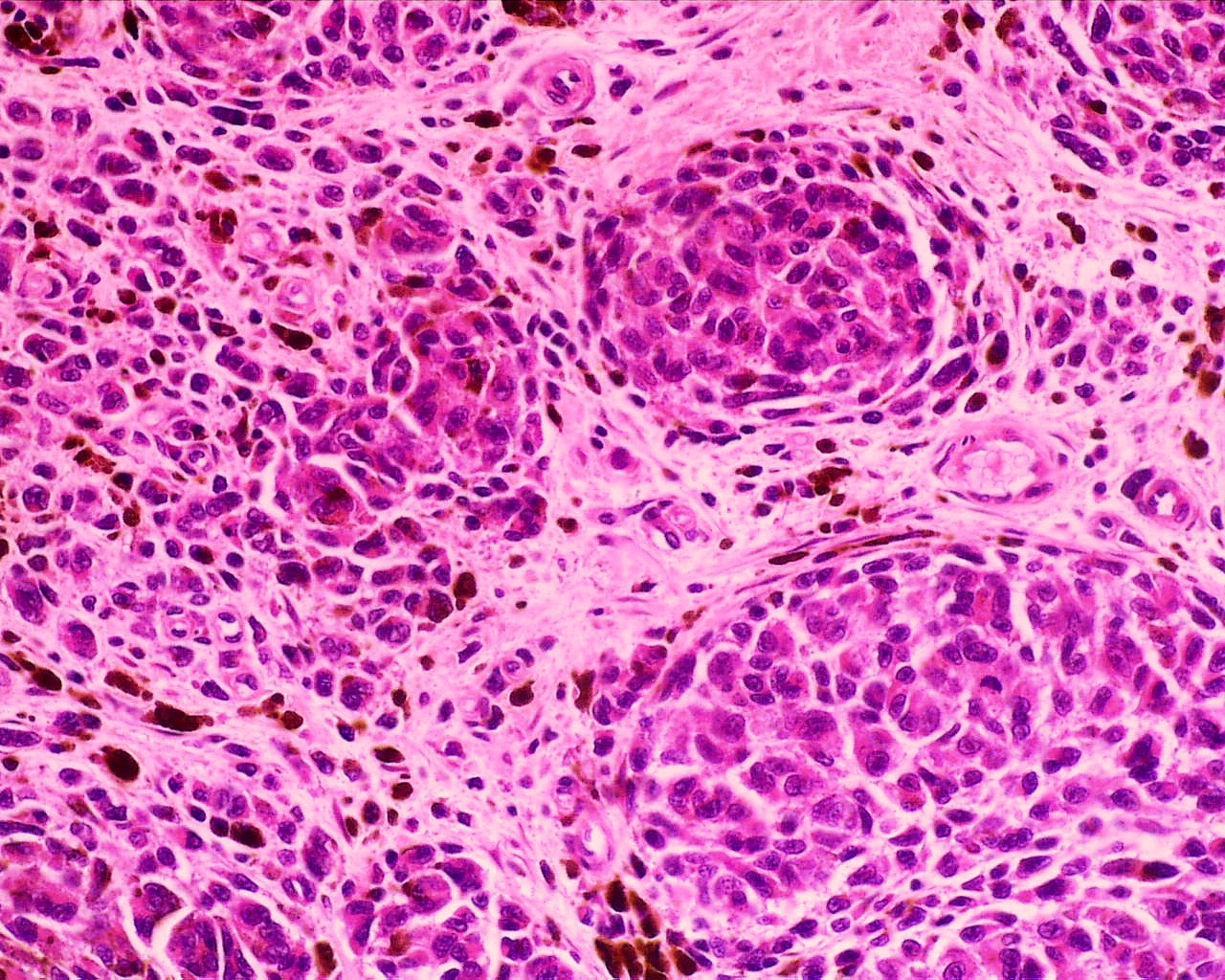 Epithelioid blue naevus